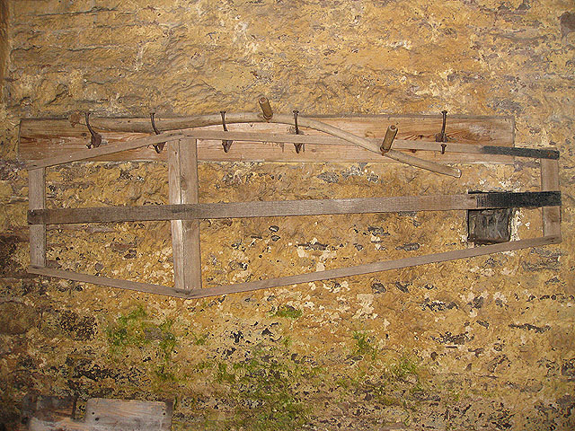 Gravedigger's template. The coffin-shaped template was used before the mechanical digger took over the job in recent times. It is gruesomely topped with the handle of a scythe. Both are kept in the locked west tower of the church of St. Michael, Garway. With thanks to the local guide who allowed me in to see the various interesting artefacts. His dog was not happy in this area of the church and quickly left to wait for us in the nave.